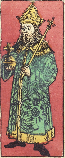 Illustration from the Nuremberg Chronicle (Latin copy in Sao Paulo)